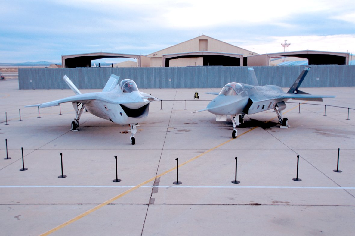 The Boeing X-32, left, and the Lockheed X-35 competed for the DoD contract to produce the Joint Strike Fighter (JSF) in 1997. Both companies received $750 million grants to build prototypes.The new single-engine, Mach-1 capable aircraft needed to be stealthy and provide robust situational awareness to the pilot during attacks on ground targets and when fighting in air-to-air engagements. It also needed to meet the specifications of the U.S. Air Force, U.S. Navy and U.S. Marine Corps as well as nation partners. Lockheed won the competition which would eventually produce the F-35 Lightning II. (photo / Boeing)